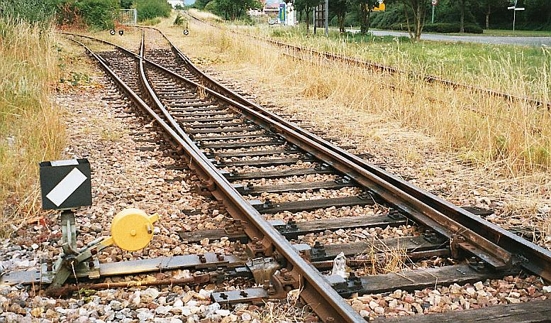 A railway switch in Viernheim, Germany My own photo